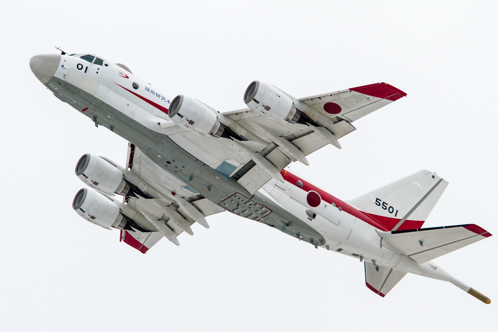 Aircraft: Kawasaki Heavy Industries, Ltd. XP-1(S/N:5501) （川崎重工業 XP-1 飛行試験1号機） Squadron: JMSDF Fleet Air Wing 4 / 51SQ （海上自衛隊 第4航空群 第51航空隊） Base: Atsugi AB (RJTA), Kanagawa-ken, Japan 16/01/2013 JSDF Atsugi AB, Japan